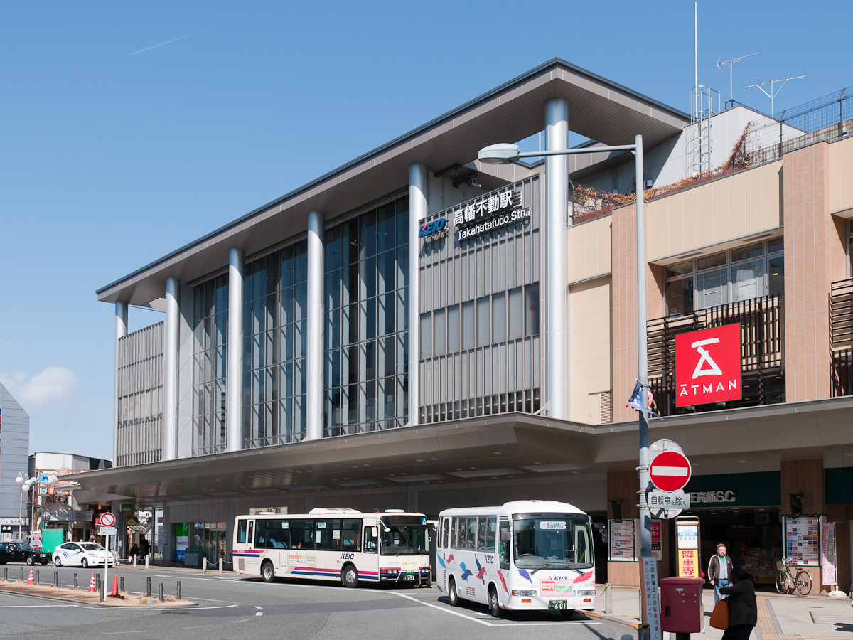 Keio Elactric Railway Takahatafudo station